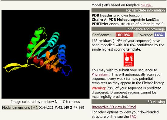 phyre